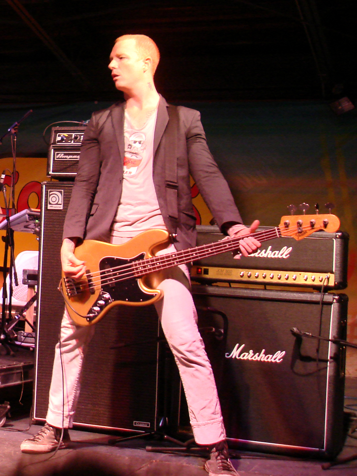 Lead singer Max Collins on stage with Eve 6 at 2008 Wisconsin State Fair.